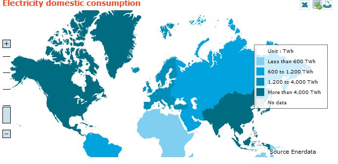 Electricity Domestic Consumption on the World detailed by Country from statistical Enerdata review.